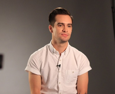 Brendon Urie at the Walmart Soundcheck in 2013